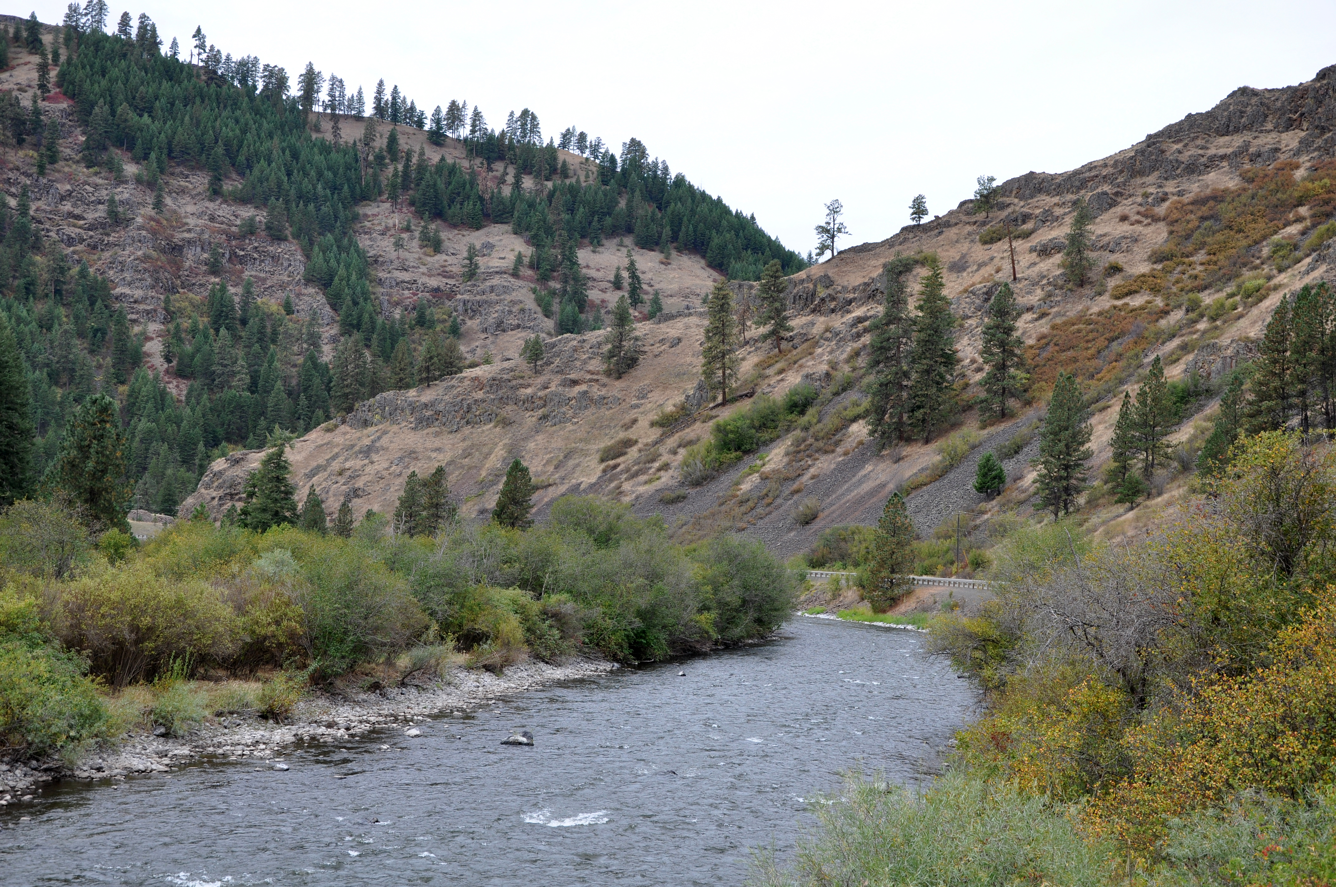 Scenic highway corridor along the Wallowa River in eastern Oregon, United States